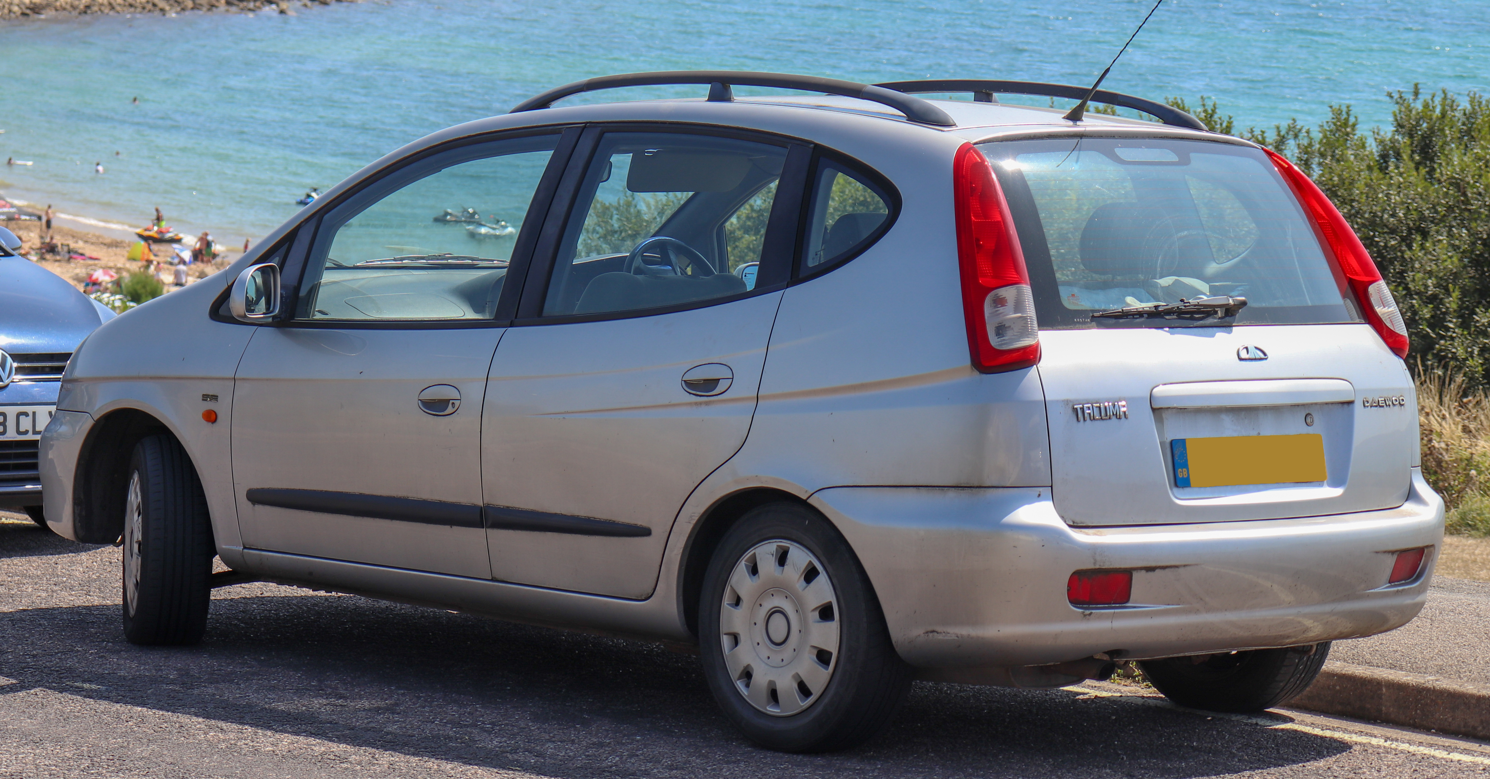 2002 Daewoo Tacuma SE 1.6 Rear Taken in Weymouth, Dorset